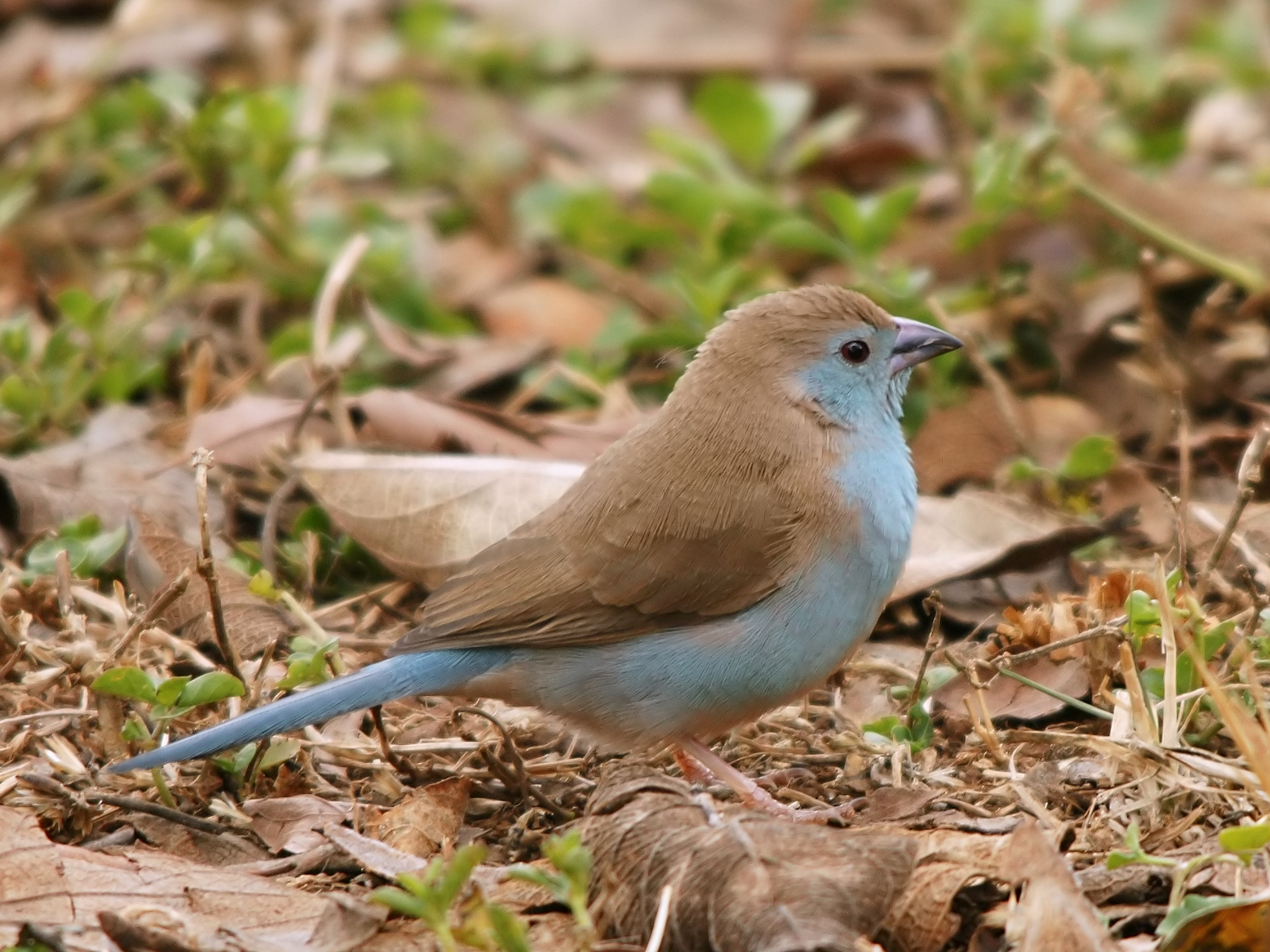 Blue Waxbill close Chilanga near Lusaka, Zambia